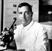 Picture of the Brazilian doctor, entomologist, researcher and professor ÂNGELO MOREIRA DA COSTA LIMA (1887-1964)